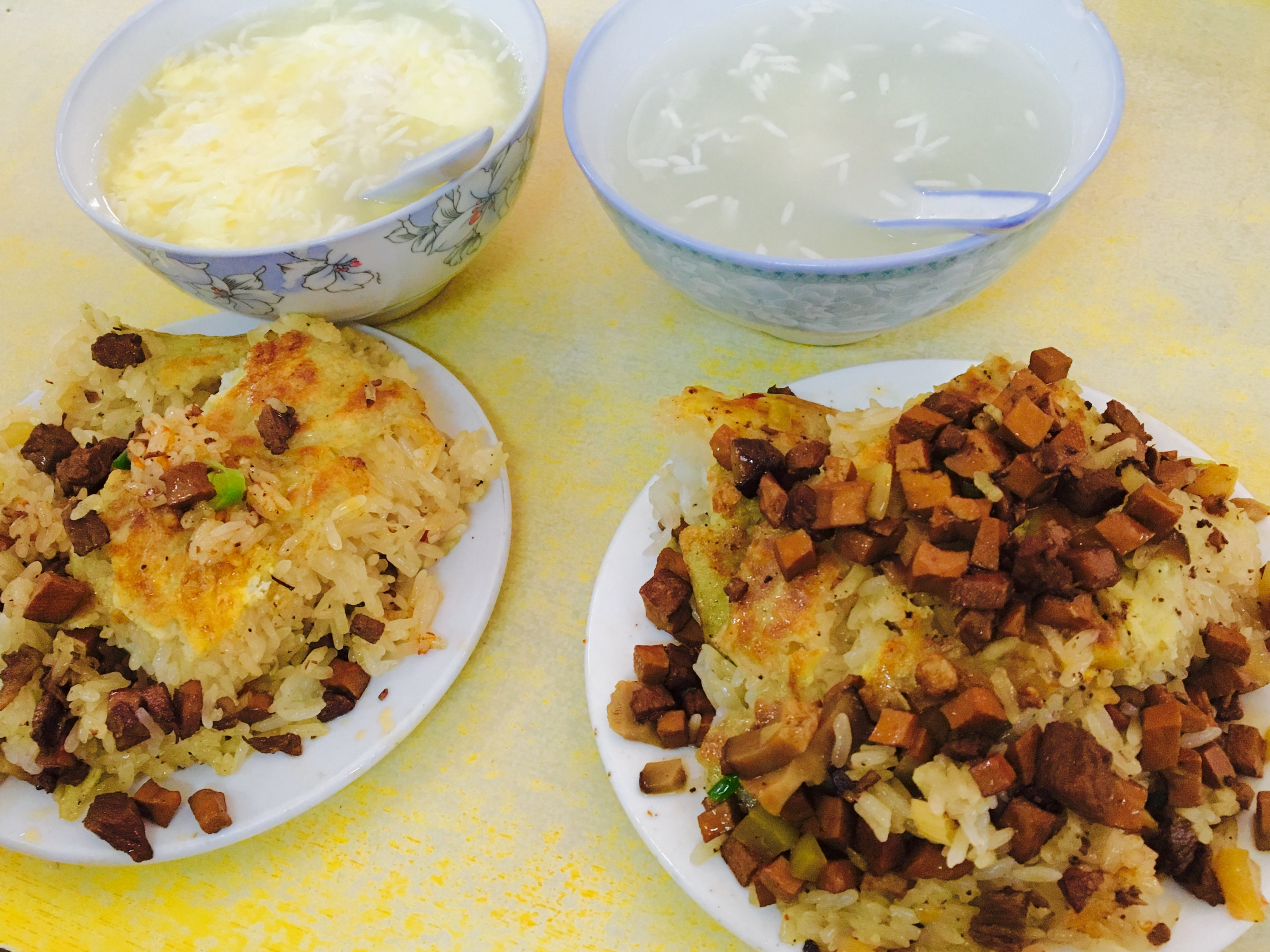 Doupi and Mijiu (Chinese rice wine) as breakfast in Wuhan